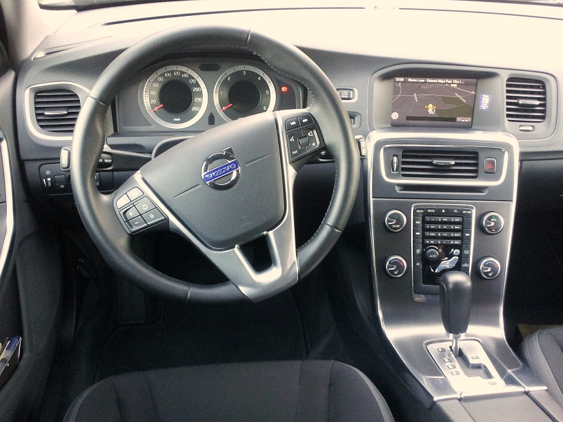 The dashboard of a Volvo V60.